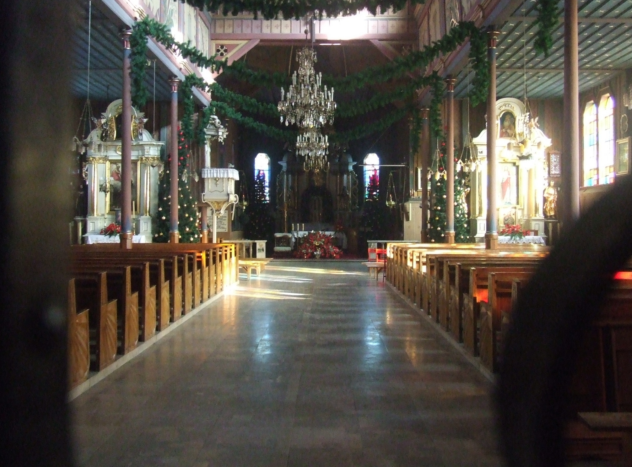 catholic church in Zawoja (Poland)